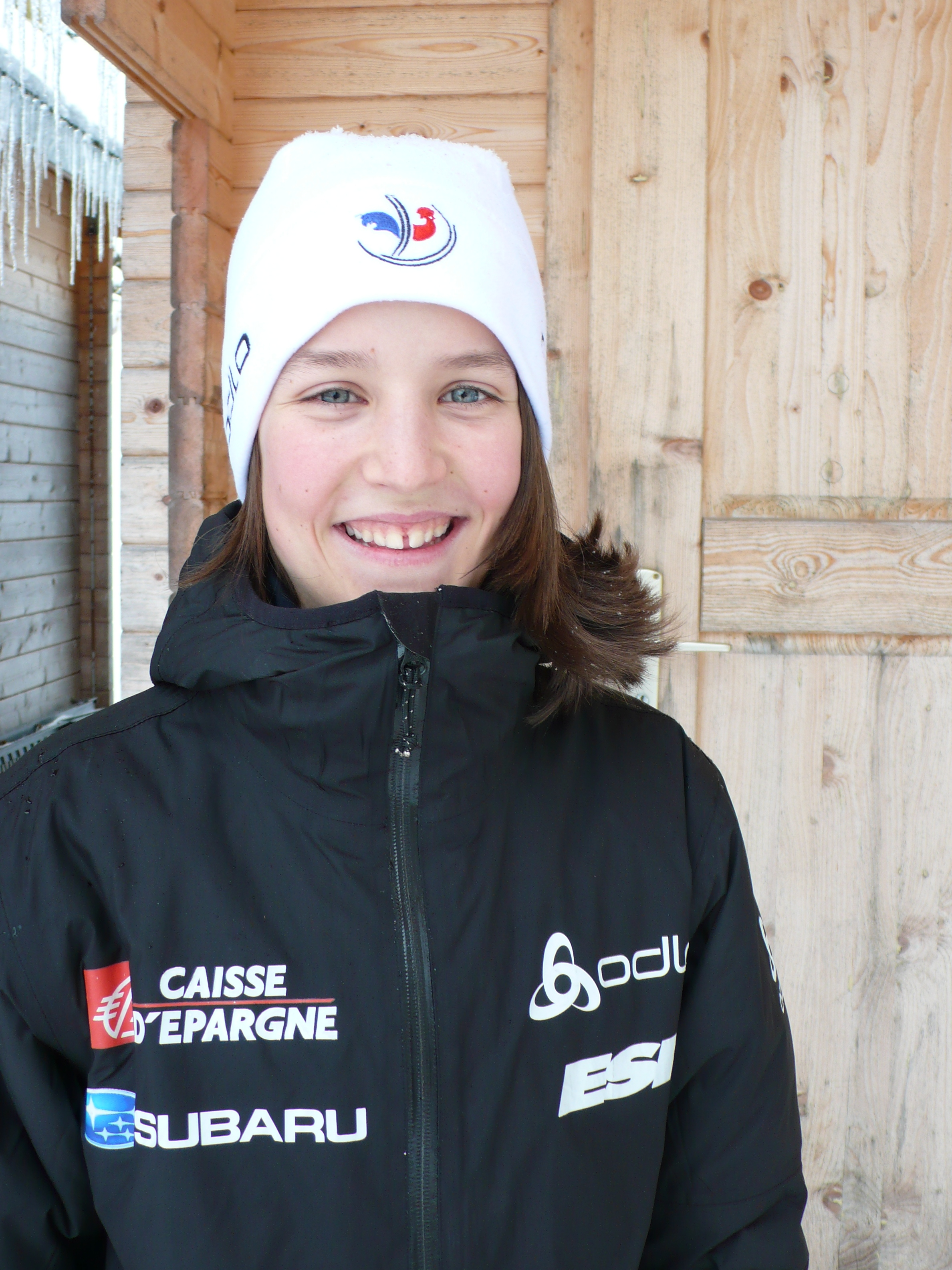 Coline Mattel: member of Skijumping French Team 2010